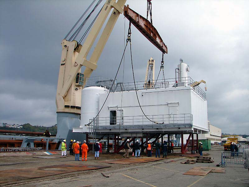 The heavy-lift ship Grietje delivers a new part for an oil tanker, in Brest.